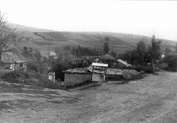 Nagórzany Sanok County) village burned down by Ukrainian Insurgent Army on April 1946.